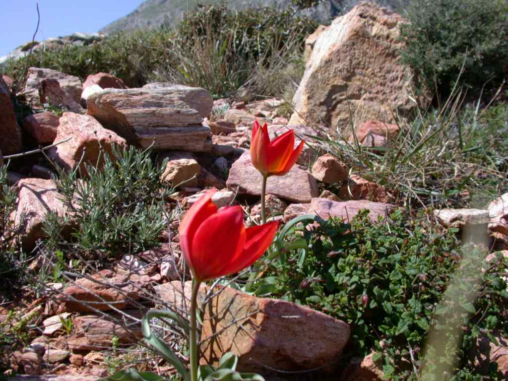 Tulipa orphanidea subsp. orphanidea (Tulipa goulimyi), Porto Kagio, one of its few world sites. Go to this location (Requires Google Earth )